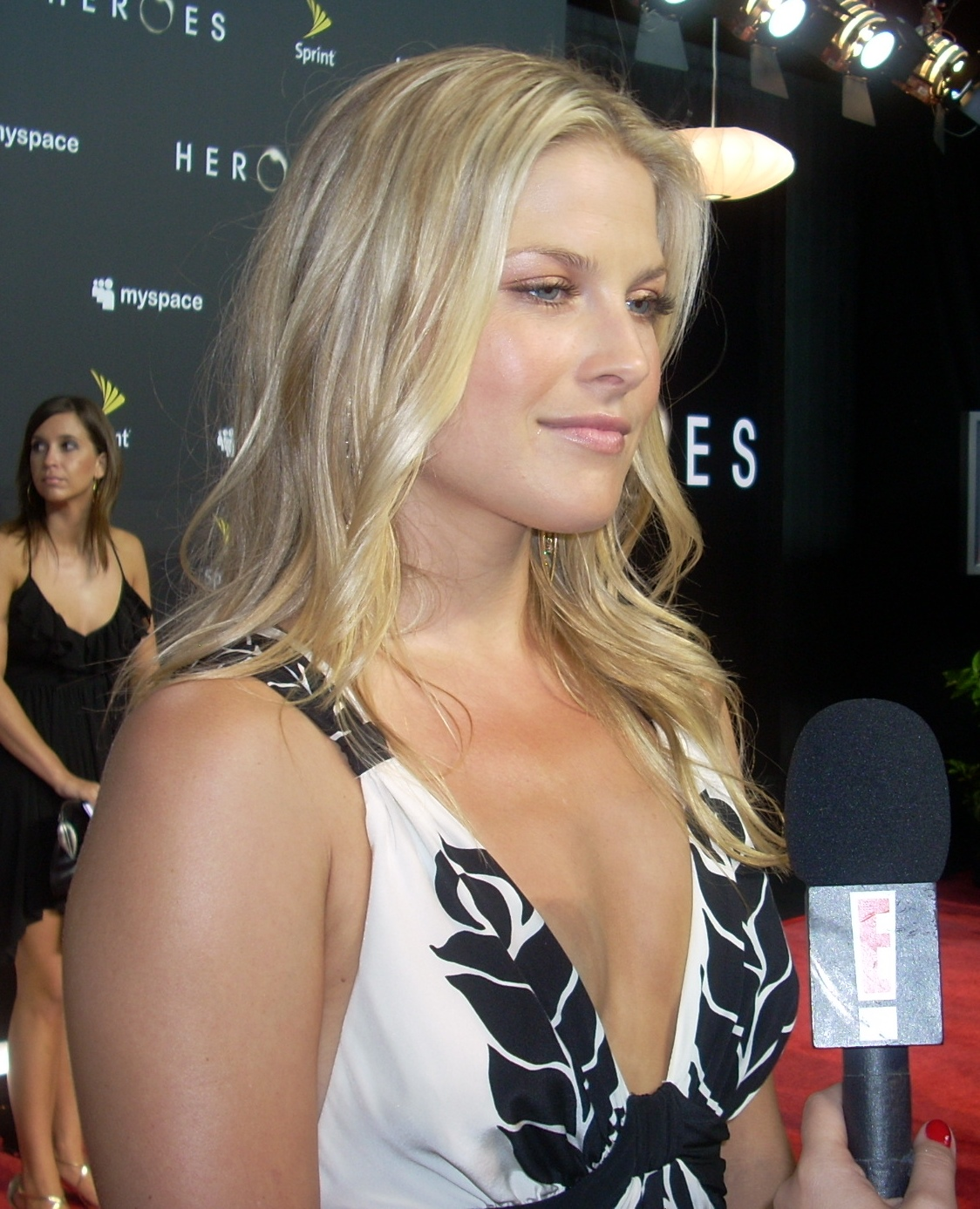 Ali Larter, "Heroes" Season Three Premiere Party, Edison L.A., Downtown Los Angeles - Sept. 7, 2008